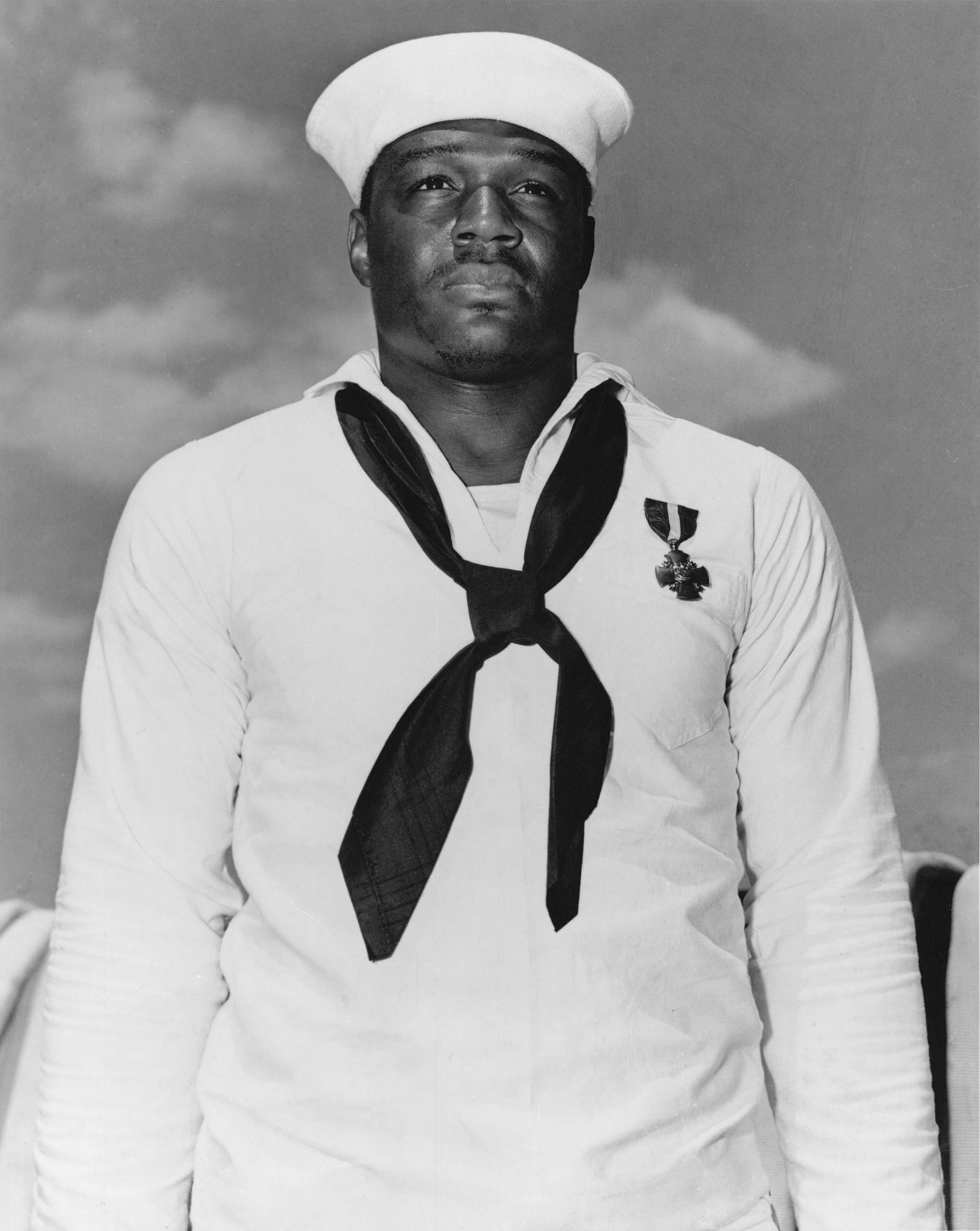 Doris Miller, official US Navy photo